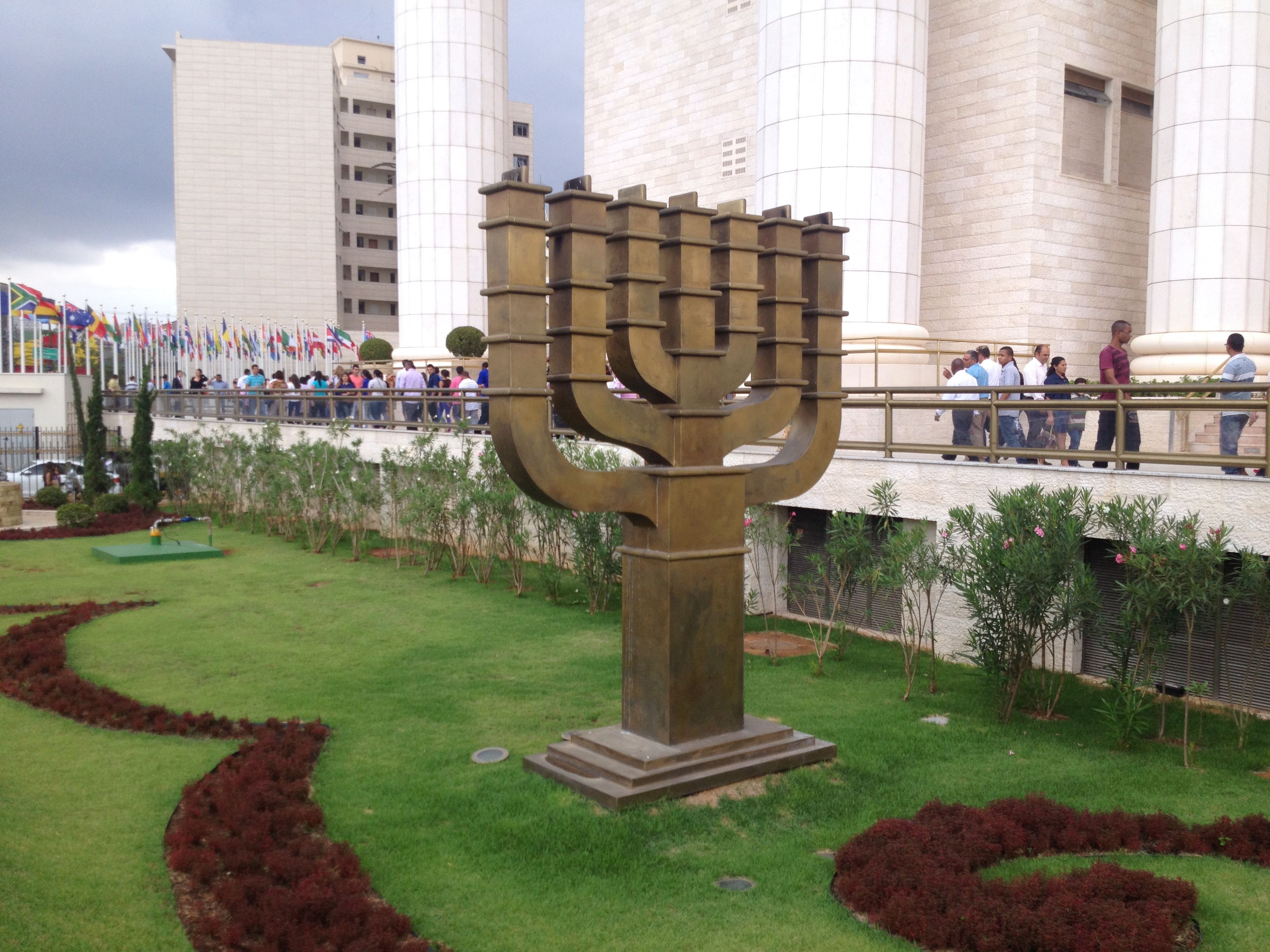 Salomon Temple in São Paulo, Brazil.